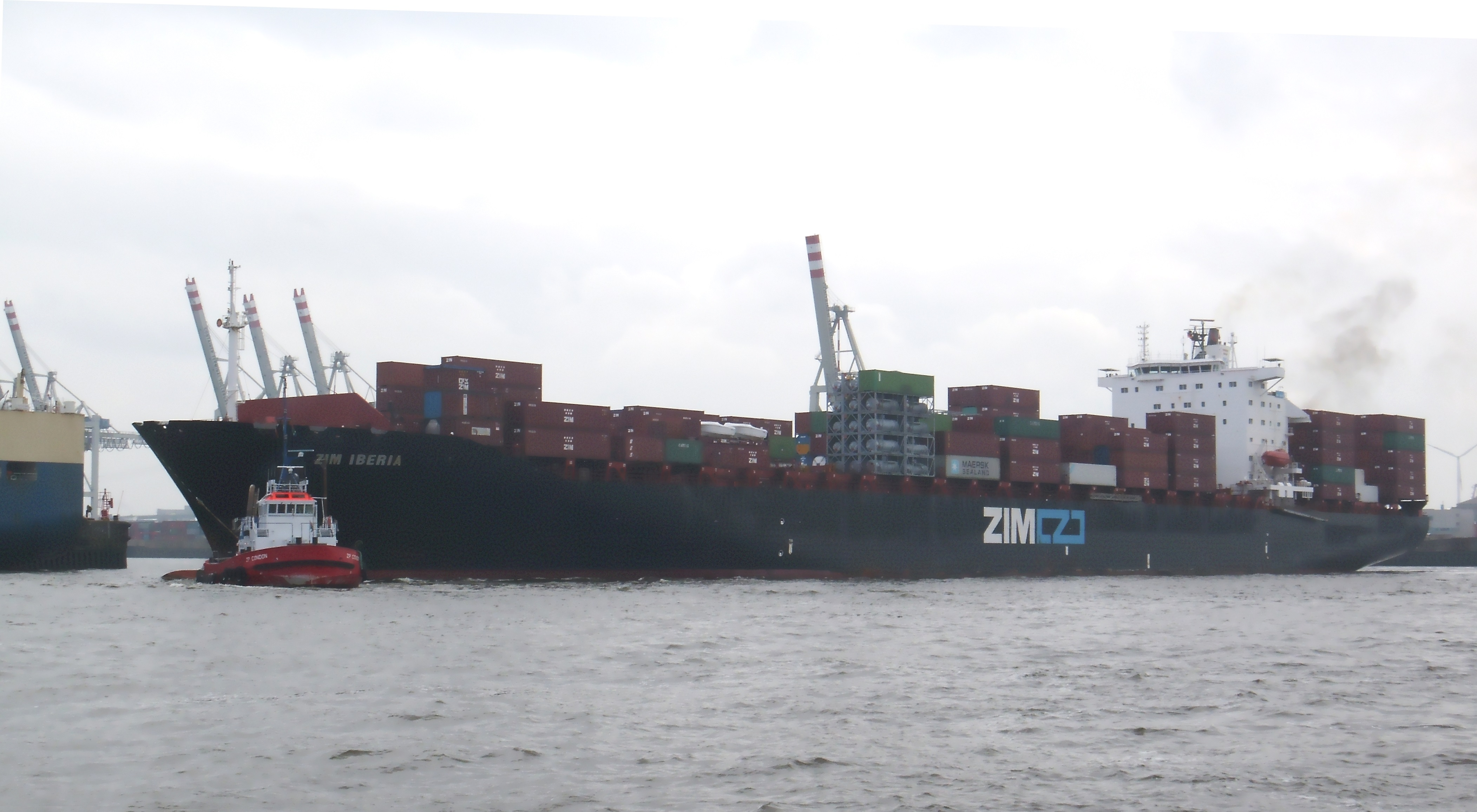 Container ship ZIM Iberia, turning maneuvers on portside bow in the port of Hamburg